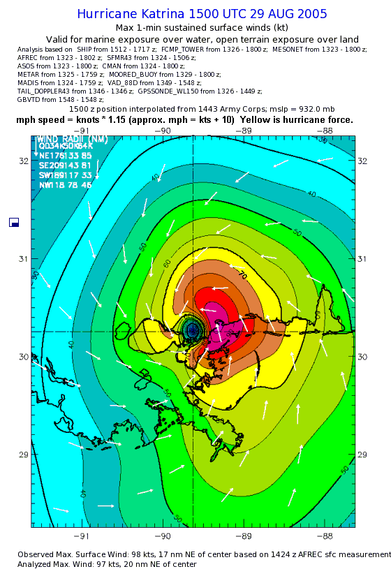 NOAA Hurricane Katrina windspeed map, for 29 August 2005 at 1500 UTC, the time of landfall in Mississippi (at the Pearl River). The map has an added note about converting wind speed from knots to mph, and has been retouched for clarity when resized smaller.